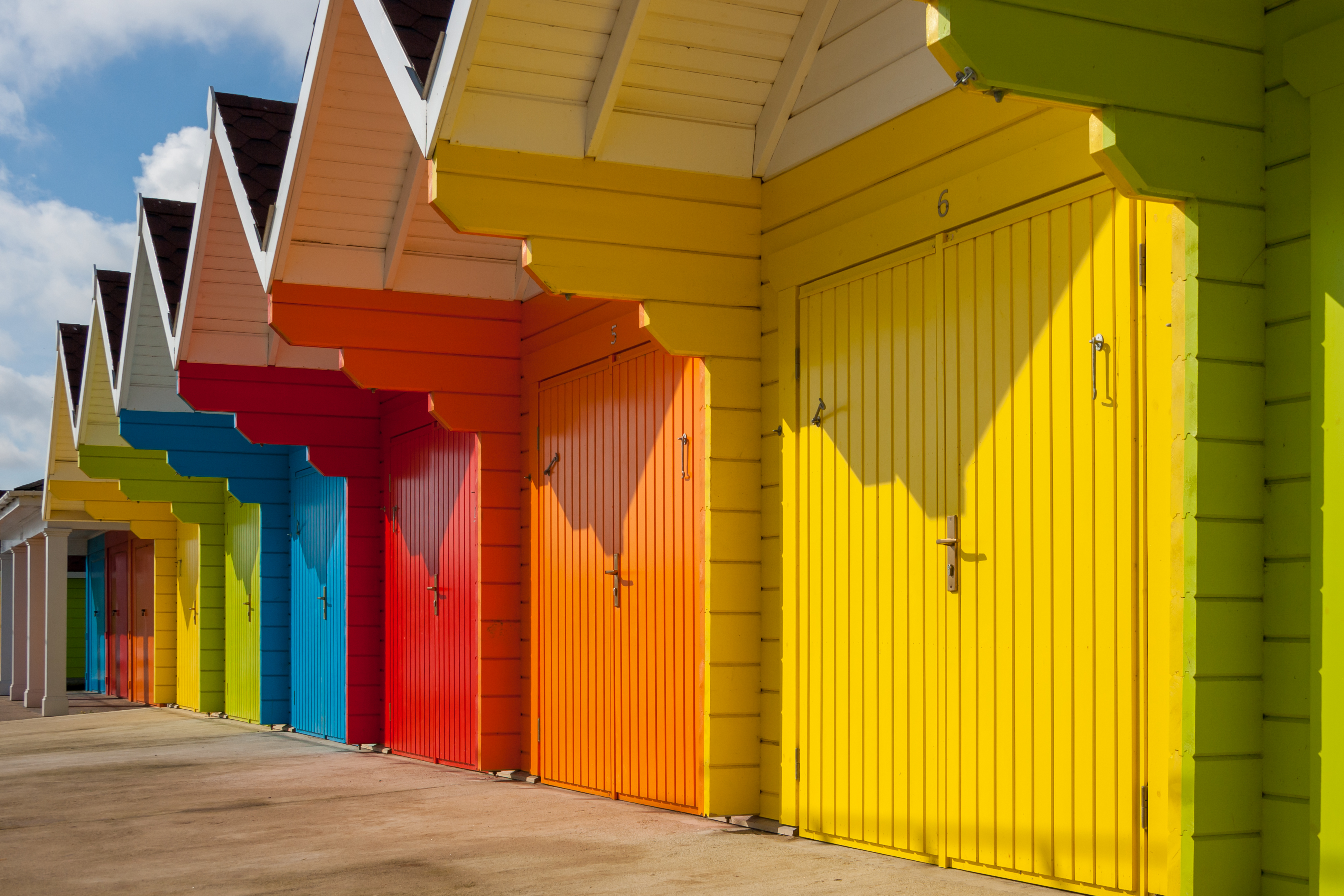 Beach huts at Scarborough